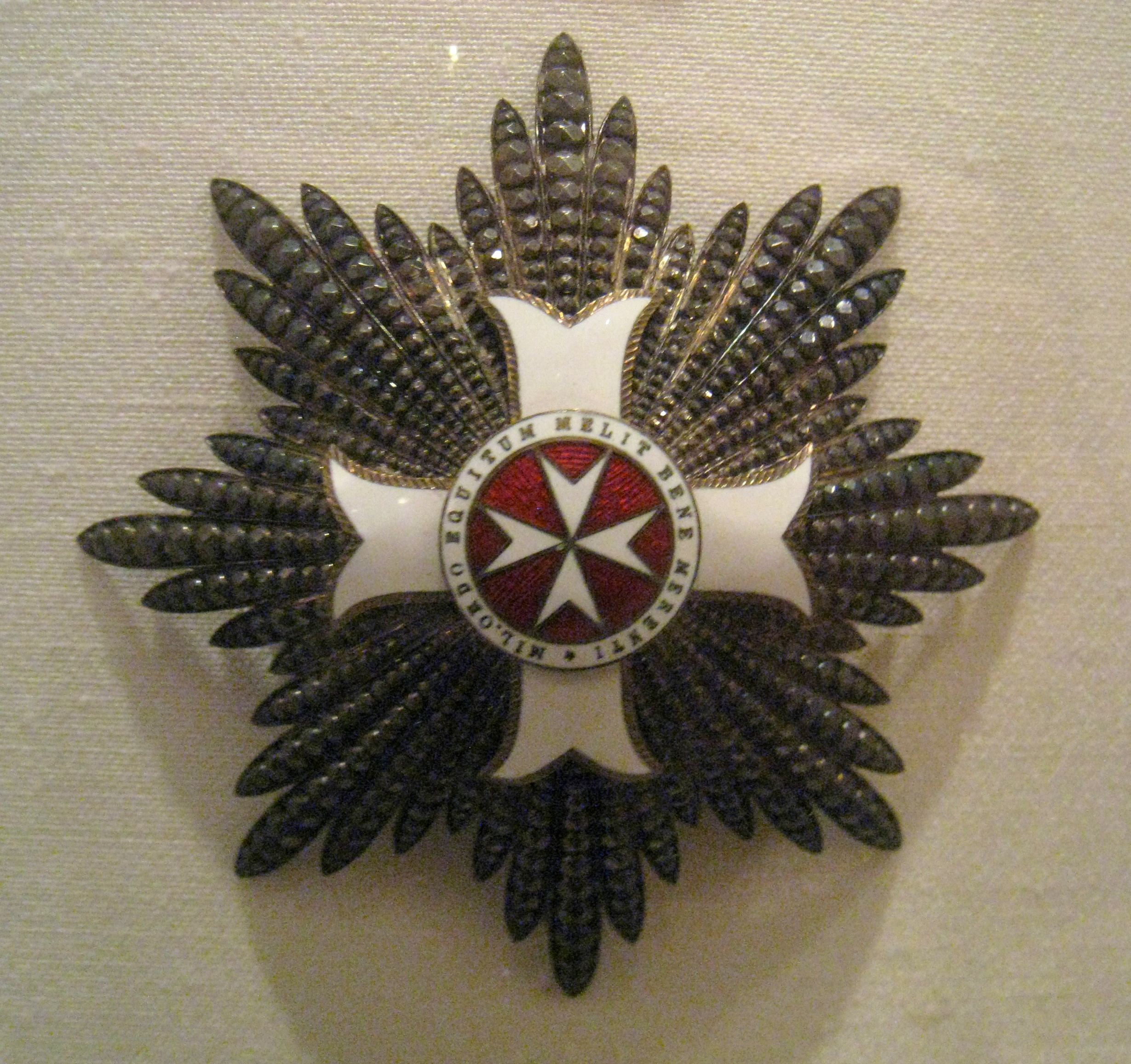 Grand Cross of the Order of Malta. Presented to Ambassador Angier Biddle Duke, and now on display in the Washington Duke Inn, Durham, North Carolina, USA.